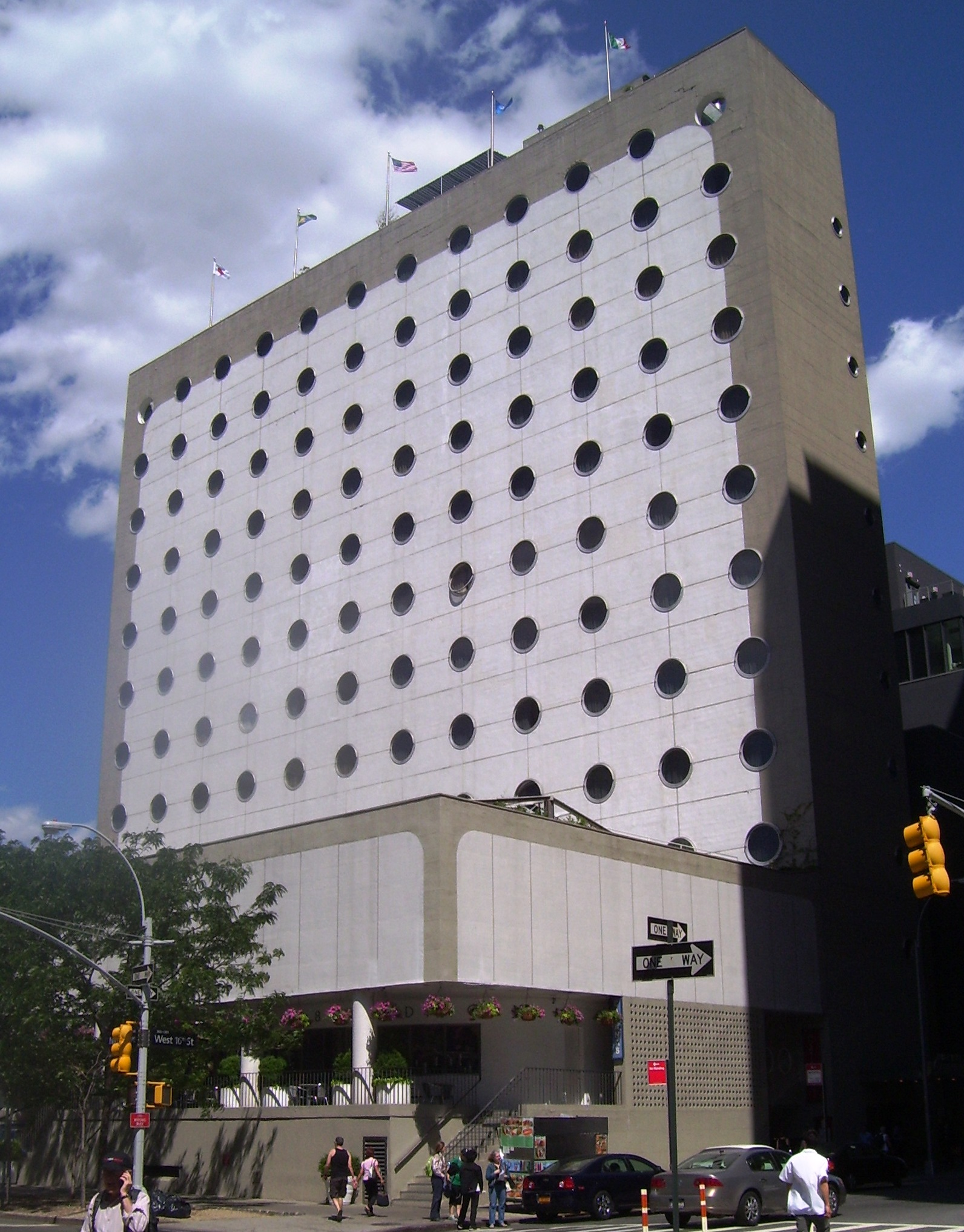 The Maritime Hotel at 363 Ninth Avenue between West 16th an 17th Streets in the Chelsea neighborhoo of Manhattan, New York City, near but not in, the Meatpacking District, was built in 1968 for the National Maritime Union as the Joseph Curran Plaza, and was designed by Albert Ledner. The hotel opened in 2003.